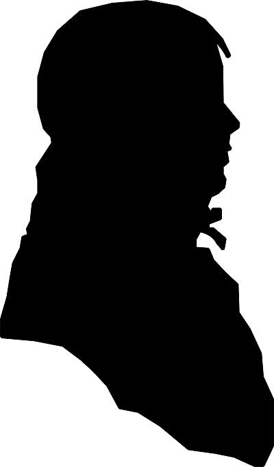 Silhouette of Jack Jouett. Only known portrait from life of Jouett.